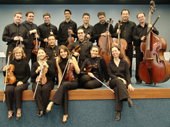 Camerata Brasiliana - This is not copyright violation since I took this picture myself and I work for this orchestra. All those people in the picture authorized me to publish it. Is there any other reason for deleting it??